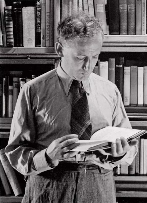 Sold at auction, Dec 1, 2010, Liveauctioneers, Jerusalem, Lot 4487